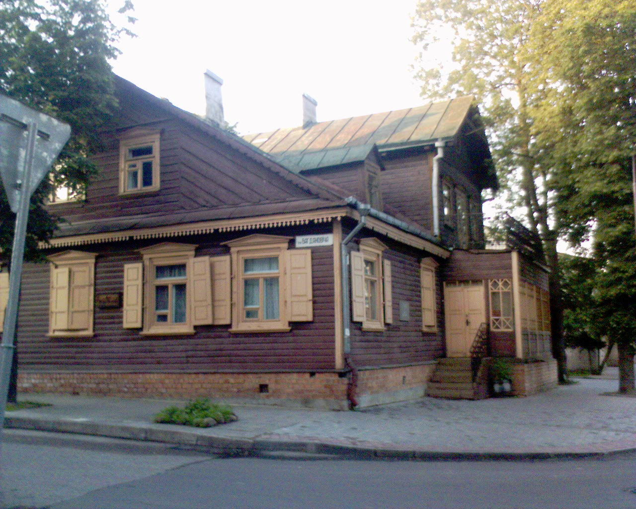 Museum of Belarusian poet Maksim Bahdanovič in Hrodna, Belarus Беларуская (тарашкевіца): Музэй беларускага паэта Максіма Багдановіча ў Горадні, Беларусь